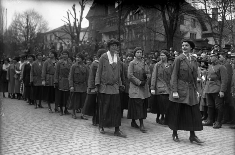 Rally for Hindenburg, candidate of the Reich block, in Hannover.